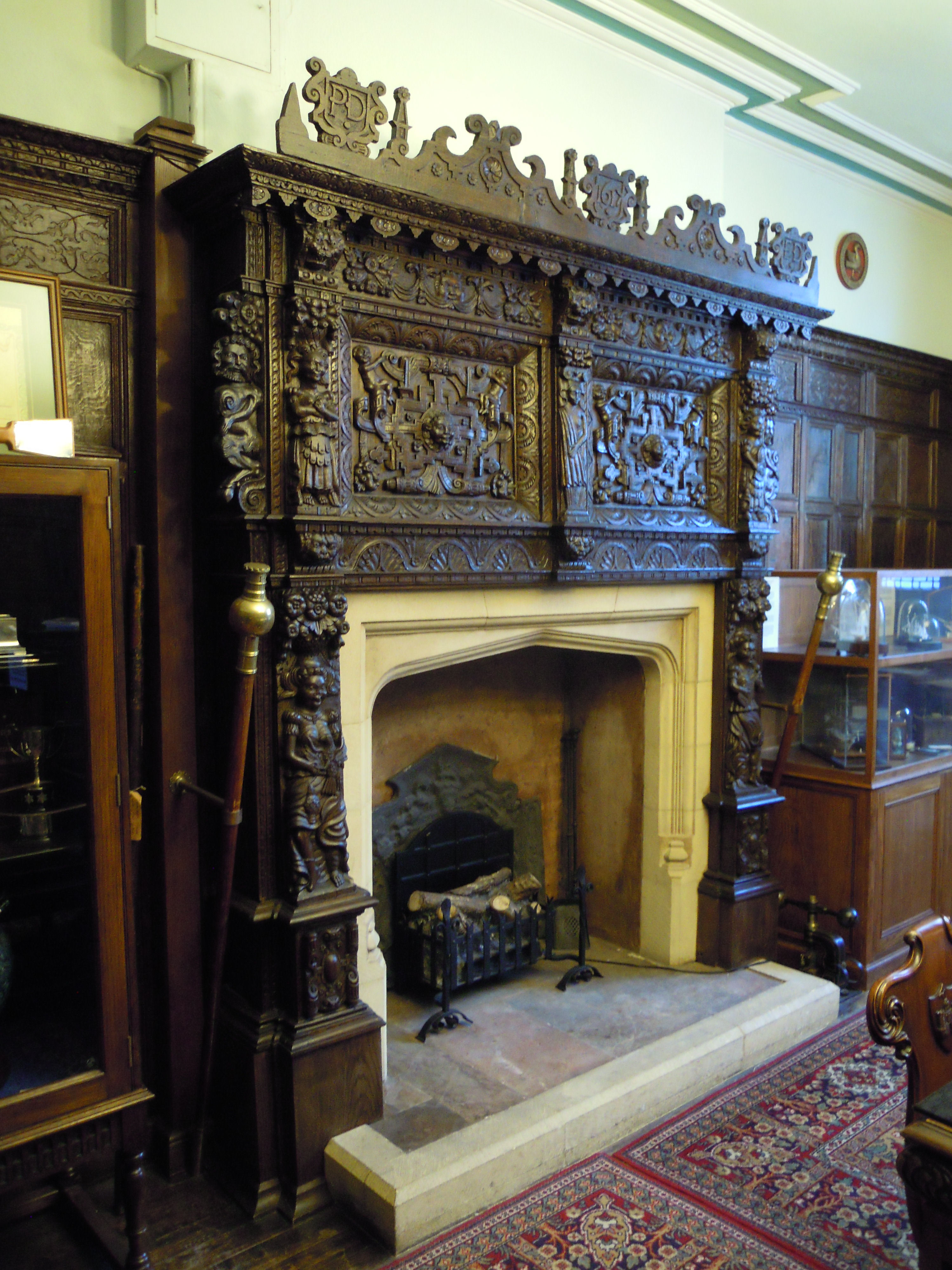 The ornate carved fireplace in The Dodderidge Room at the Guildhall and Pannier Market at Barnstaple in Devon.